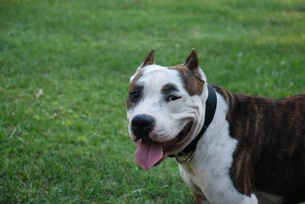 My Amstaff, Mann. He is smiling.